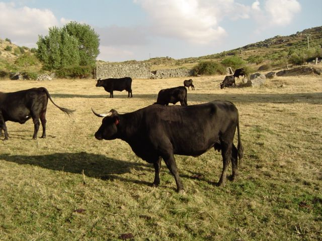 Avileña-Negra Iberian cow in the Sierra de Avila, Spain